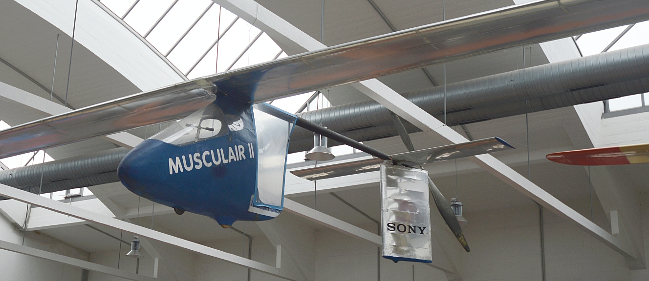 At the Deutsches Museum Flugwerft Schleissheim, Munich, Germany